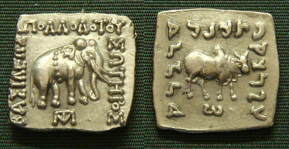 Coin of Apollodotus I. British Museum. Own work.